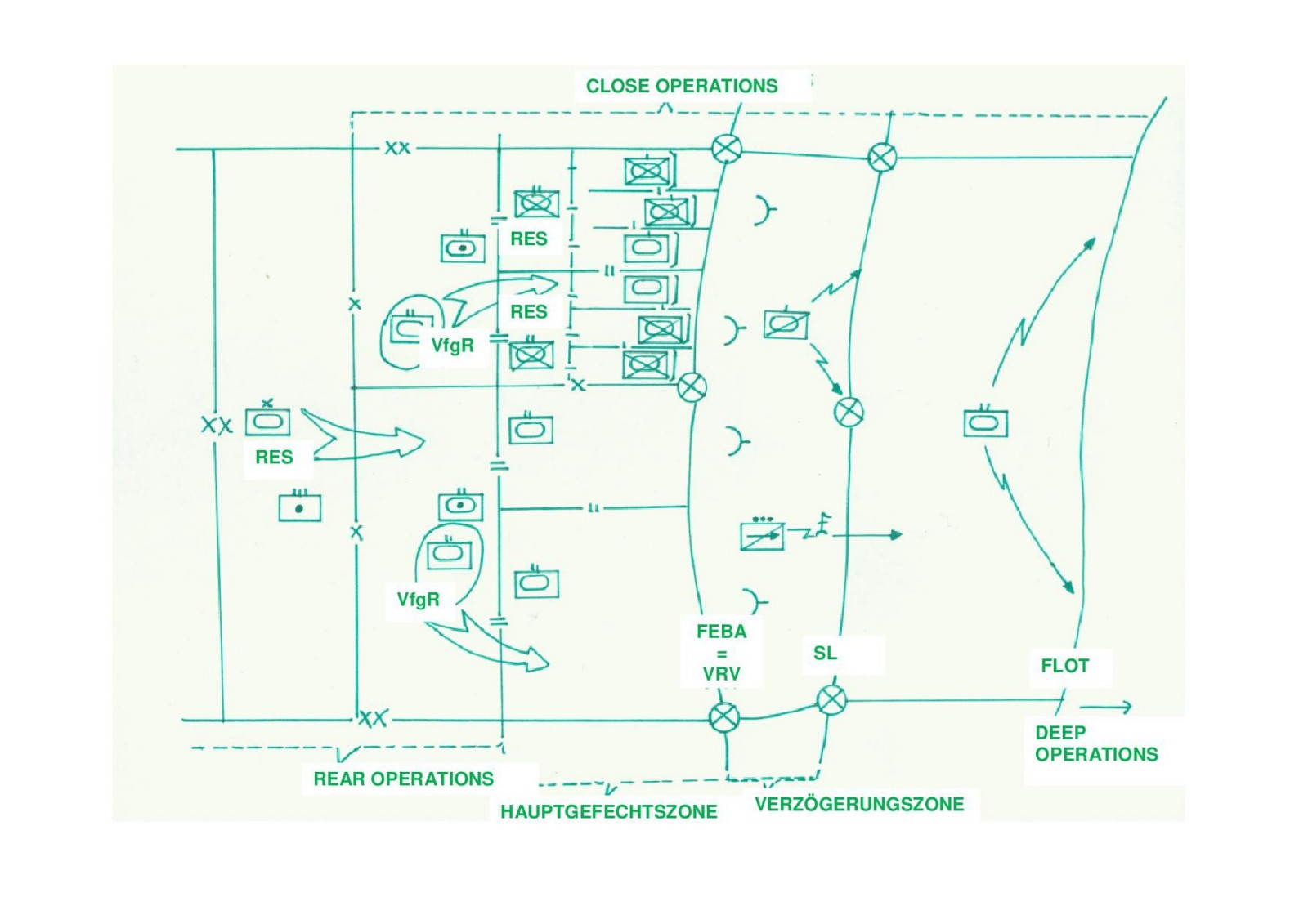 Organization of Battlefield